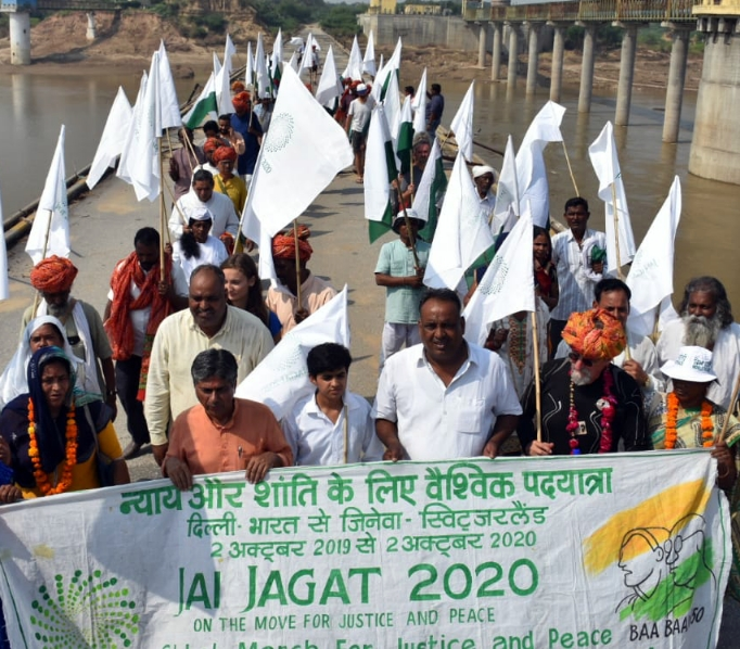 Jai Jagat 2020 Chambel river crossing